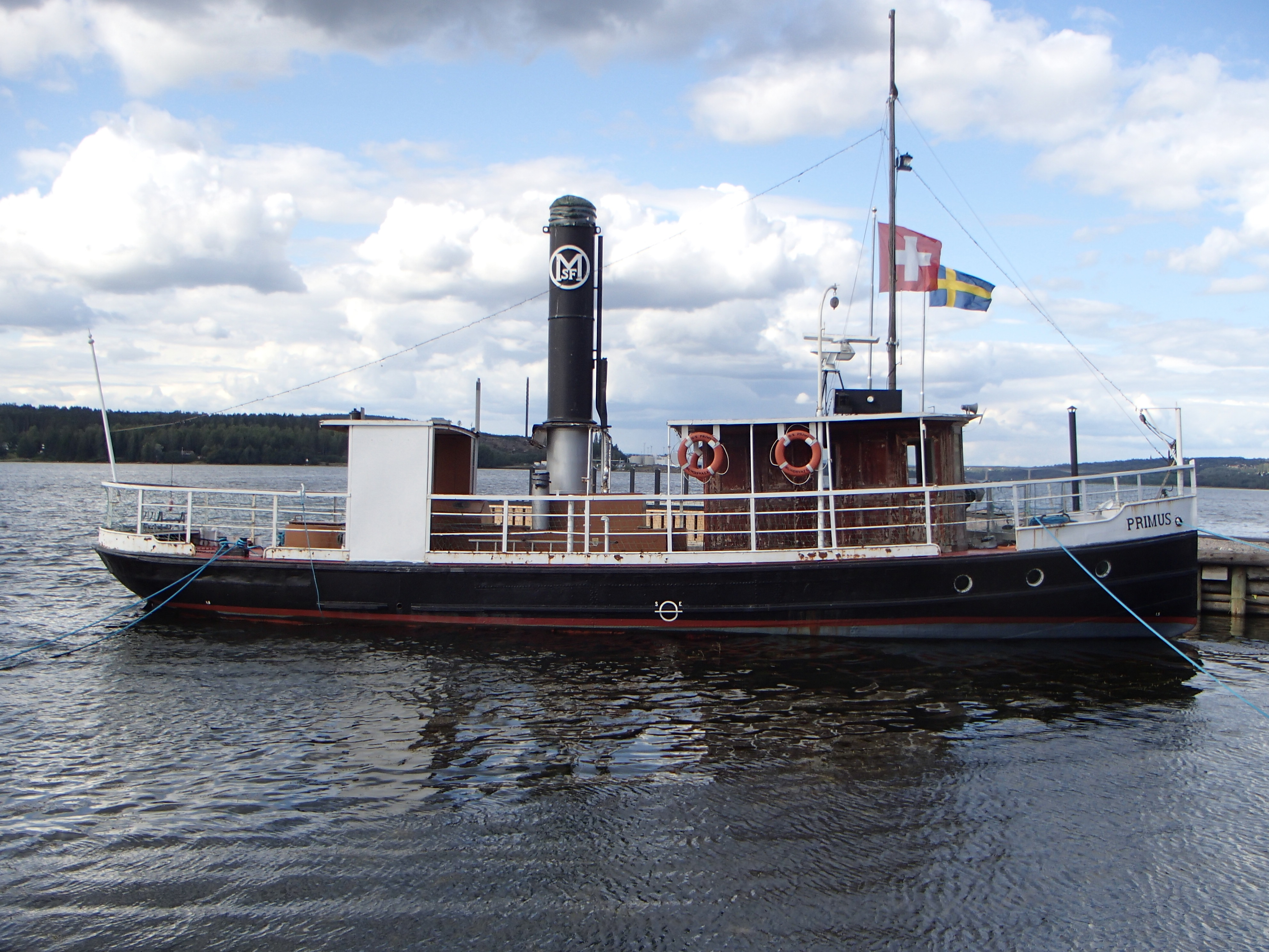 Tugboat S/S Primus in Sundsvall, at Karlsvik This is an image of a protected Swedish ship, with call sign SJKQ .